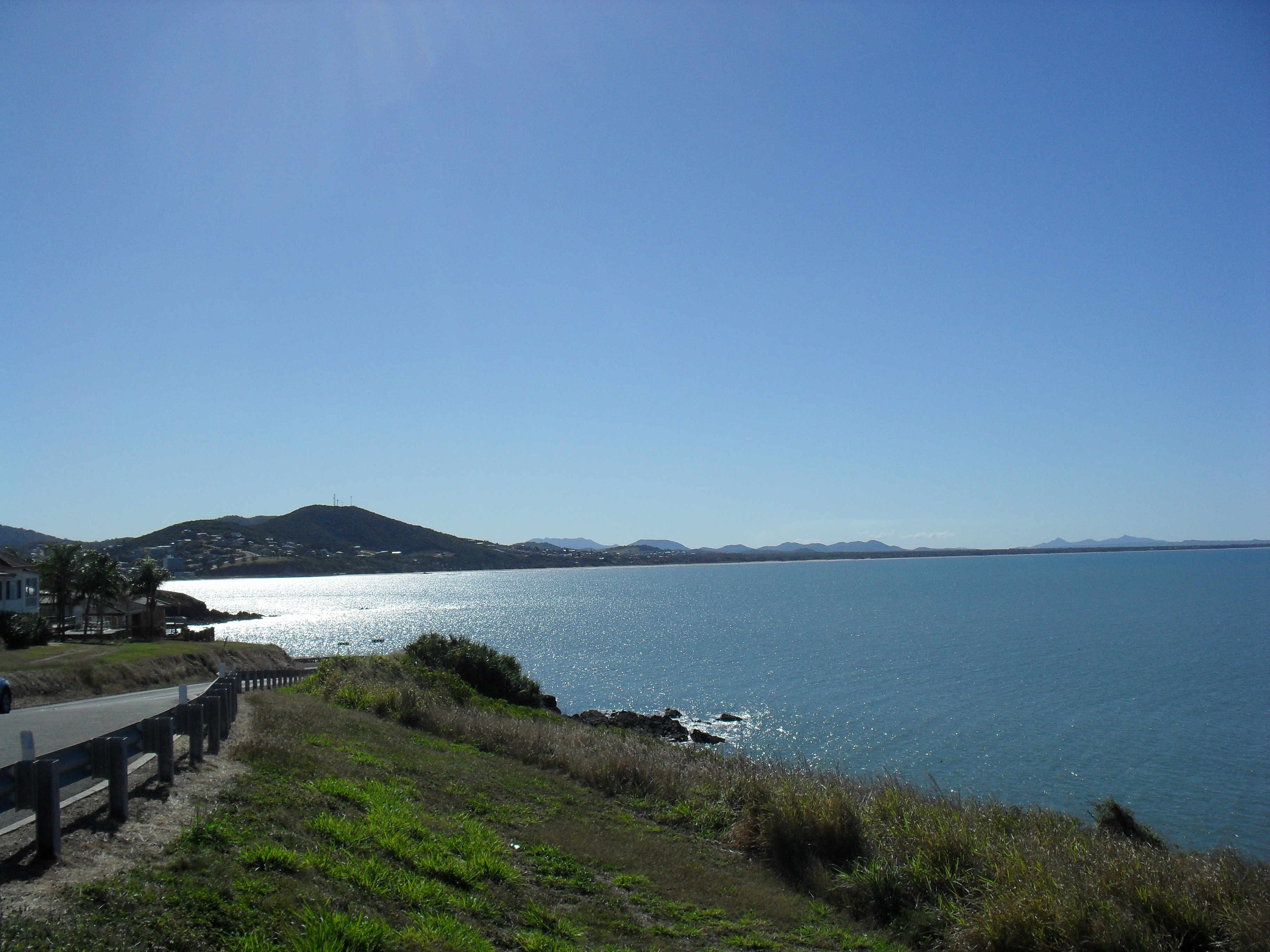 View over Keppel Bay from Wreck Point, Yeppoon 2011